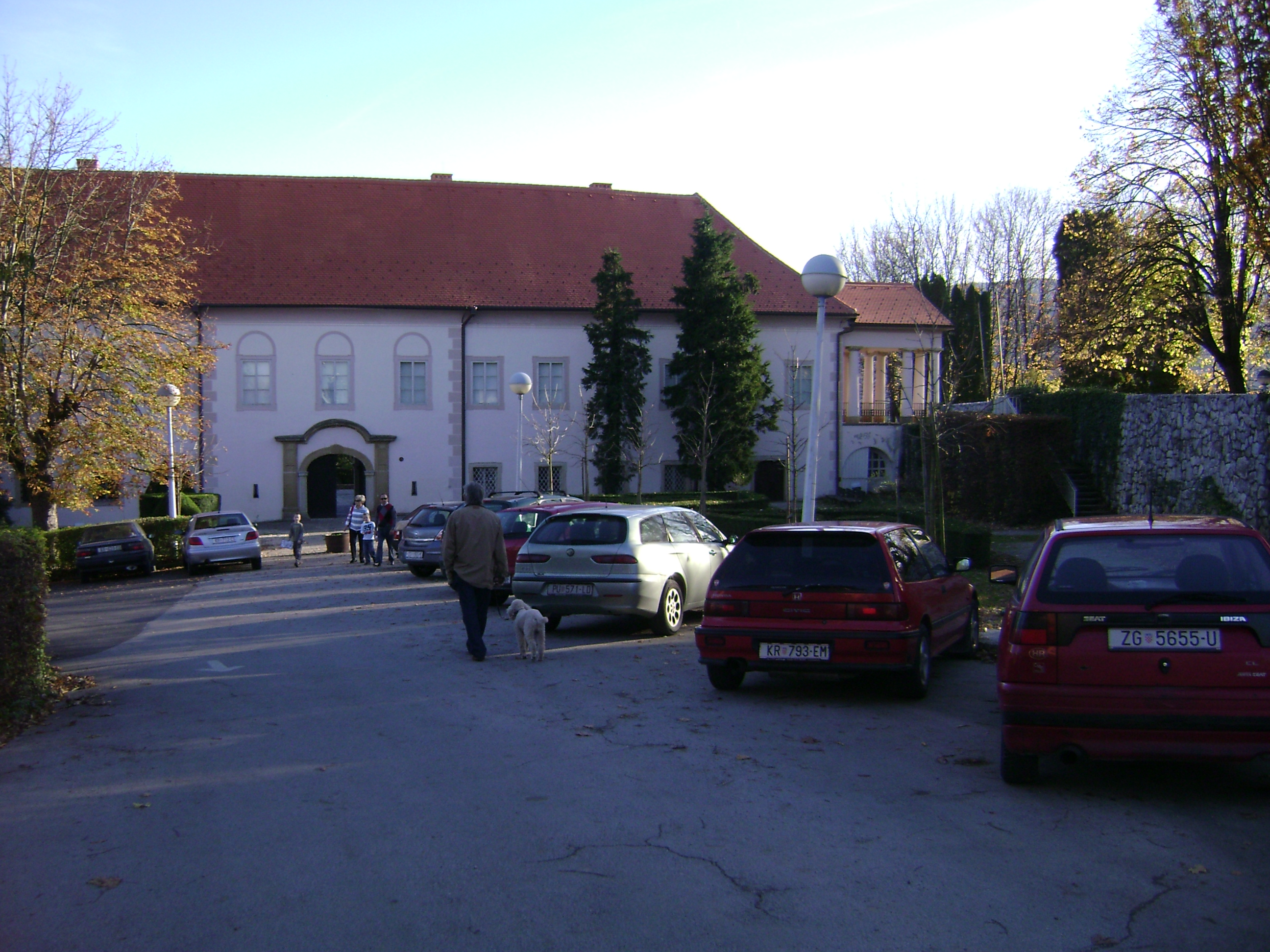 picture of castle orsic in gornja stubica, croatia